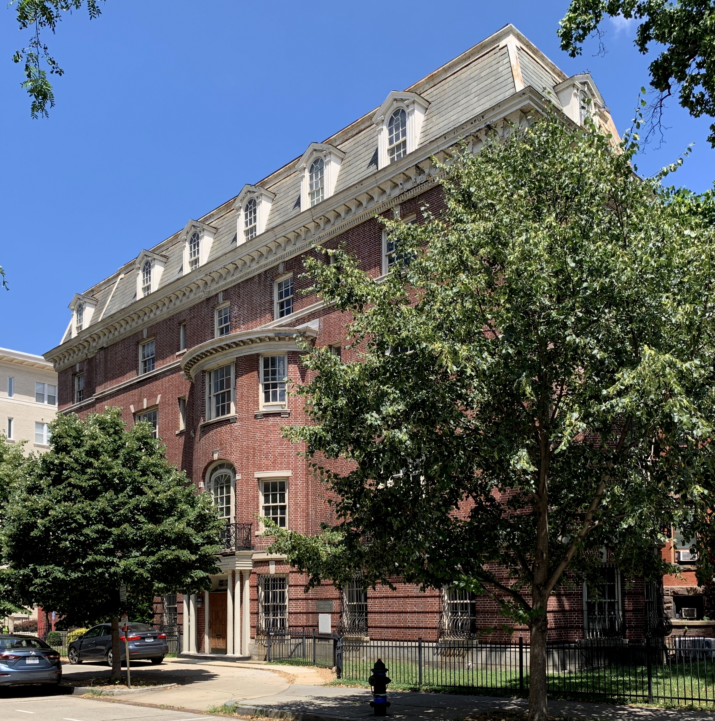 National Association of Colored Women's Clubs (NACWC) headquarters located at 1601 R Street NW in Washington, D.C. Built in 1910 for naval commander Richard T. Mulligan, this large five-story mansion was designed by Jules Henri de Sibour and is a contributing property to the Sixteenth Street Historic District